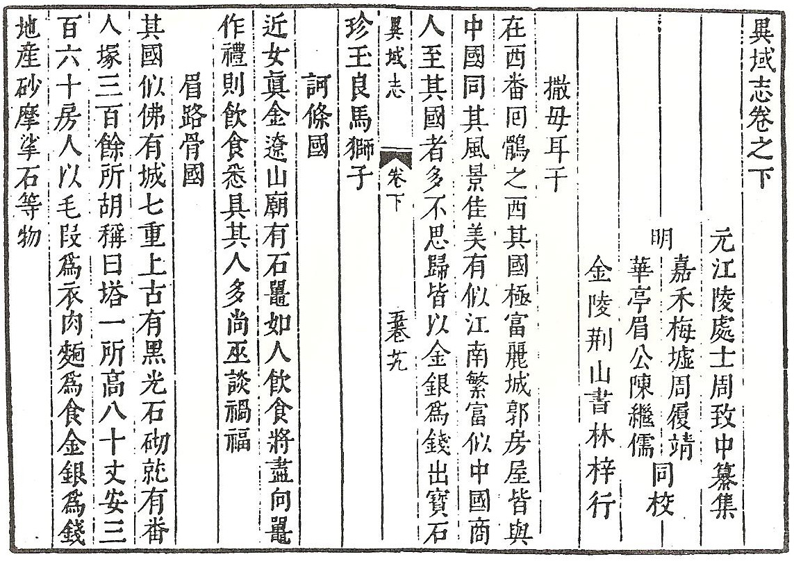 Yi Yu Zhi